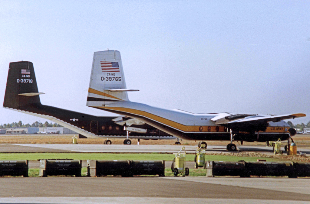 De Havilland Canada DHC-4 (C-7B) aircraft of the US Army National Guard at Fresno Airport California in 1990